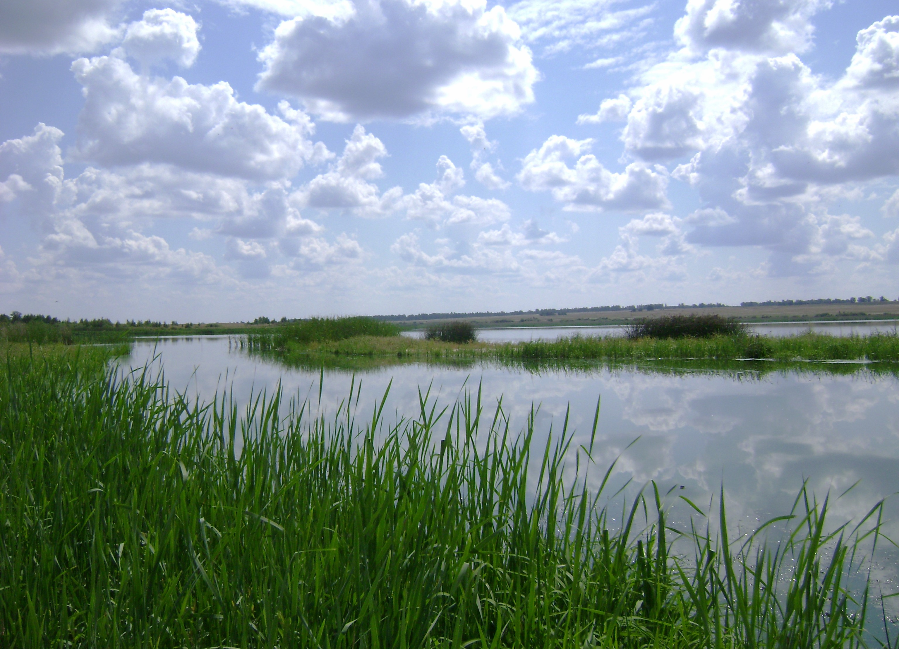 Nature in a summer day in Navlinsky District of Bryansk Oblast, Russia